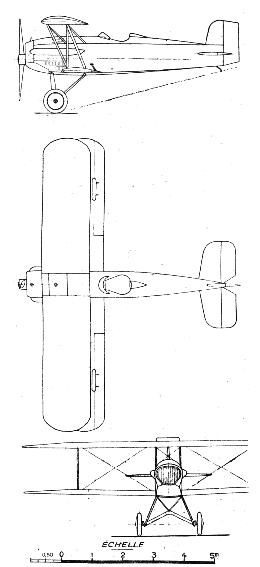 Avia BH-33L 3-view drawing from L'Aérophile October,1929